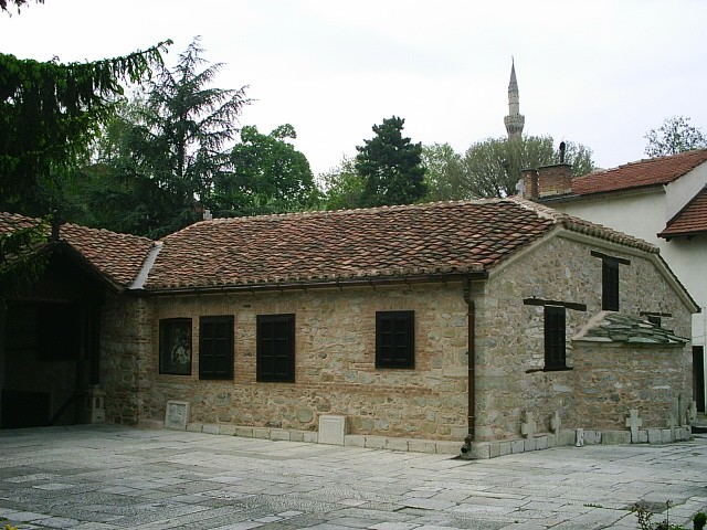 Skopje, capital of the Republic of Macedonia